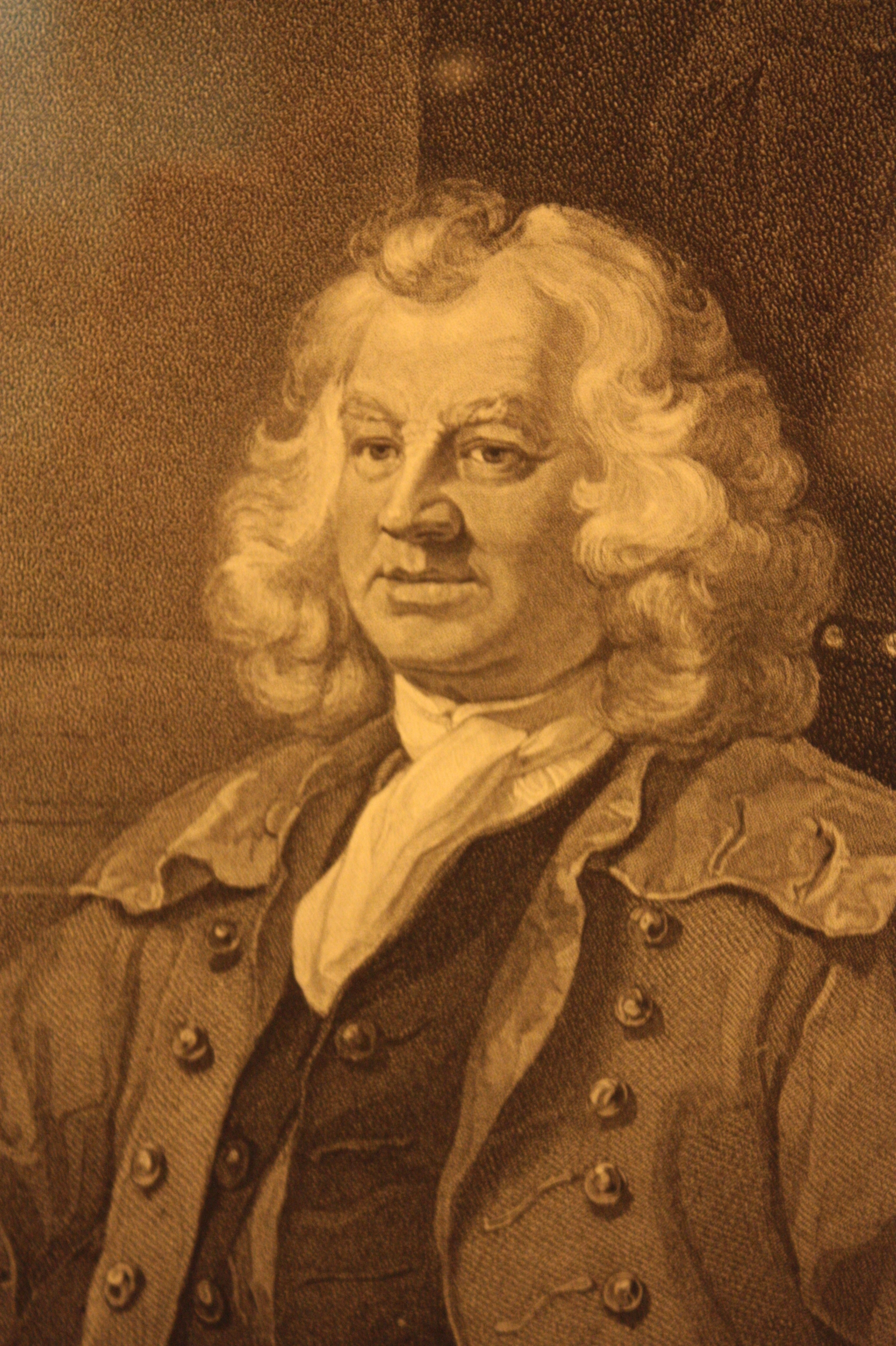 Cpt. Thomas Coram by W. Nutter, 1796